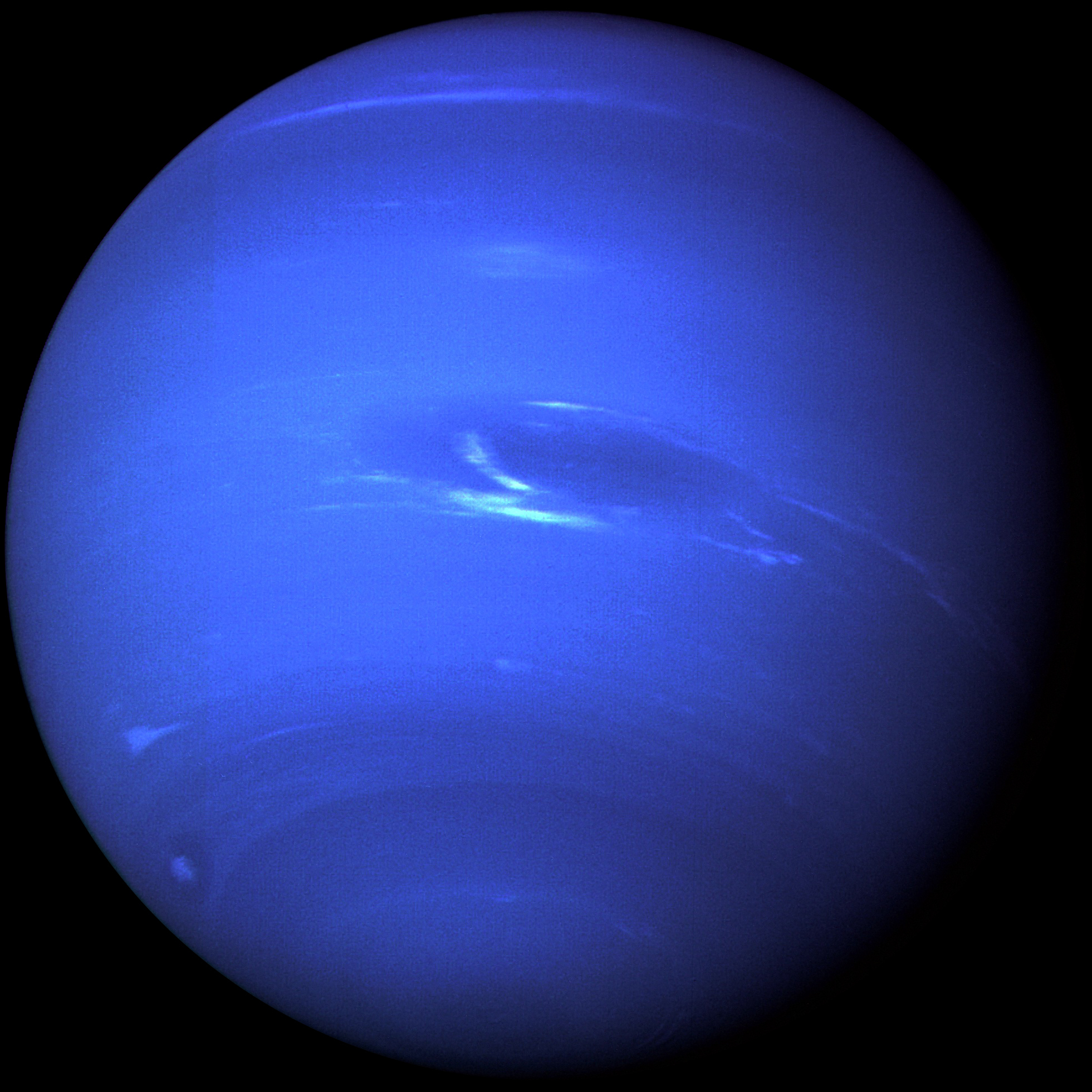 This picture of Neptune was produced from the last whole planet images taken through the green and orange filters on the Voyager 2 narrow angle camera. The images were taken at a range of 4.4 million miles from the planet, 4 days and 20 hours before closest approach in August 1989. The picture shows the Great Dark Spot and its companion bright smudge; on the west limb the fast moving bright feature called Scooter and the little dark spot are visible. These clouds were seen to persist for as long as Voyager's cameras could resolve them. North of these, a bright cloud band similar to the south polar streak may be seen.